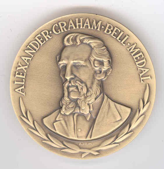 Photo of the front (face) side of an IEEE Alexander Graham Bell Medal, awarded by the Institute of Electrical and Electronic Engineers for meritorious achievements in telecommunications. Awarded annually since 1976. According to the IEEE, the medal's inspiration was A.G. Bell: "The invention of the telephone by Alexander Graham Bell in 1876 was a major event in electrotechnology. It was instrumental in stimulating the broad telecommunications industry that has dramatically improved life throughout the world. As an individual, Bell himself exemplified the contributions that scientists and engineers have made to the betterment of mankind." The medals sponsor in 2009 and many other years prior has been Alcatel-Lucent Bell Labs.